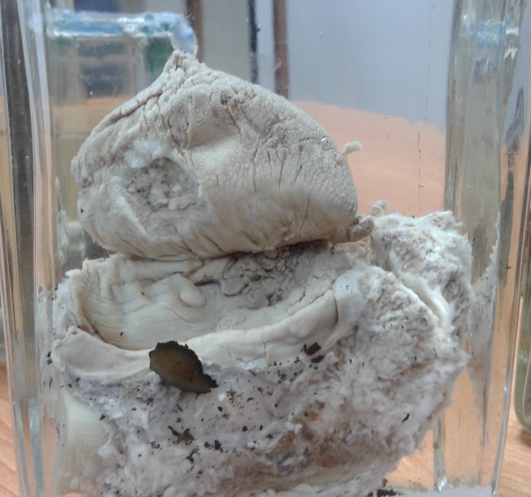 tongue carcinoma